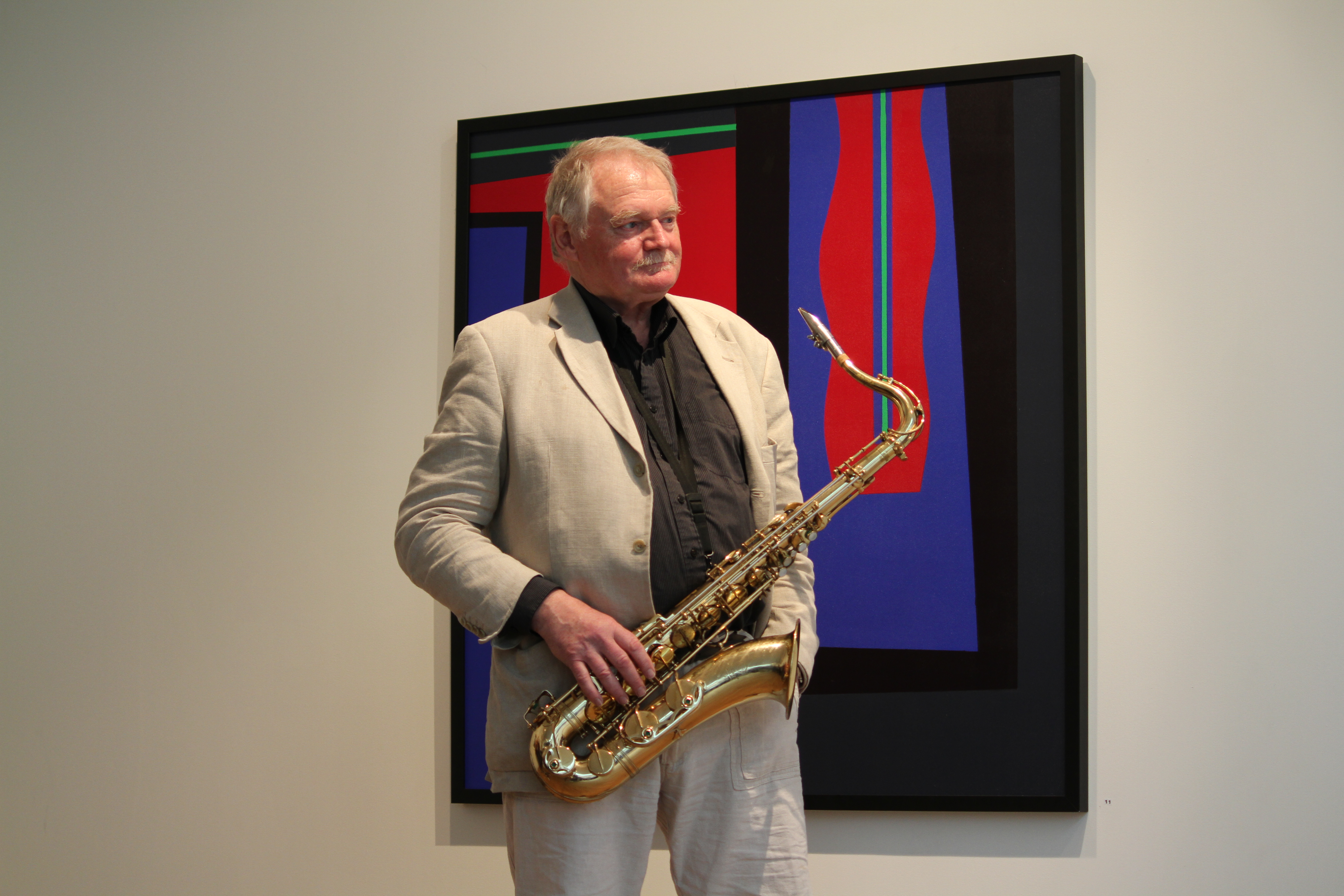 Ove Stokstad, a Norwegian printmaker and jazz musician, professor emeritus at NTNU, Trondheim Academy of Fine Art in front of one of his own works of art in 2013